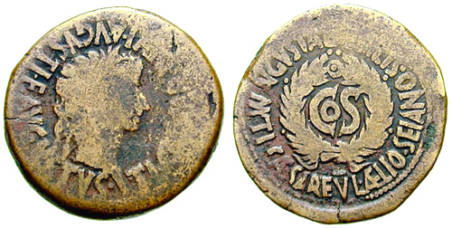 SPAIN, Bilbilis. Tiberius. 14-27 AD. Aelius Seianus, magistrate. Laureate head right / COS in wreath. RPC I 398; Burgos 196. Many of these rare coins have Sejanus' name obliterated, Sejanus having suffered damnatio memoriae after his overthrow and death later in the year 31 AD.